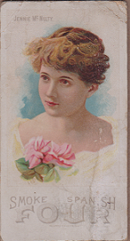 Circa 1890 Cigar Box Card (Actresses Series) with Jennie McNulty